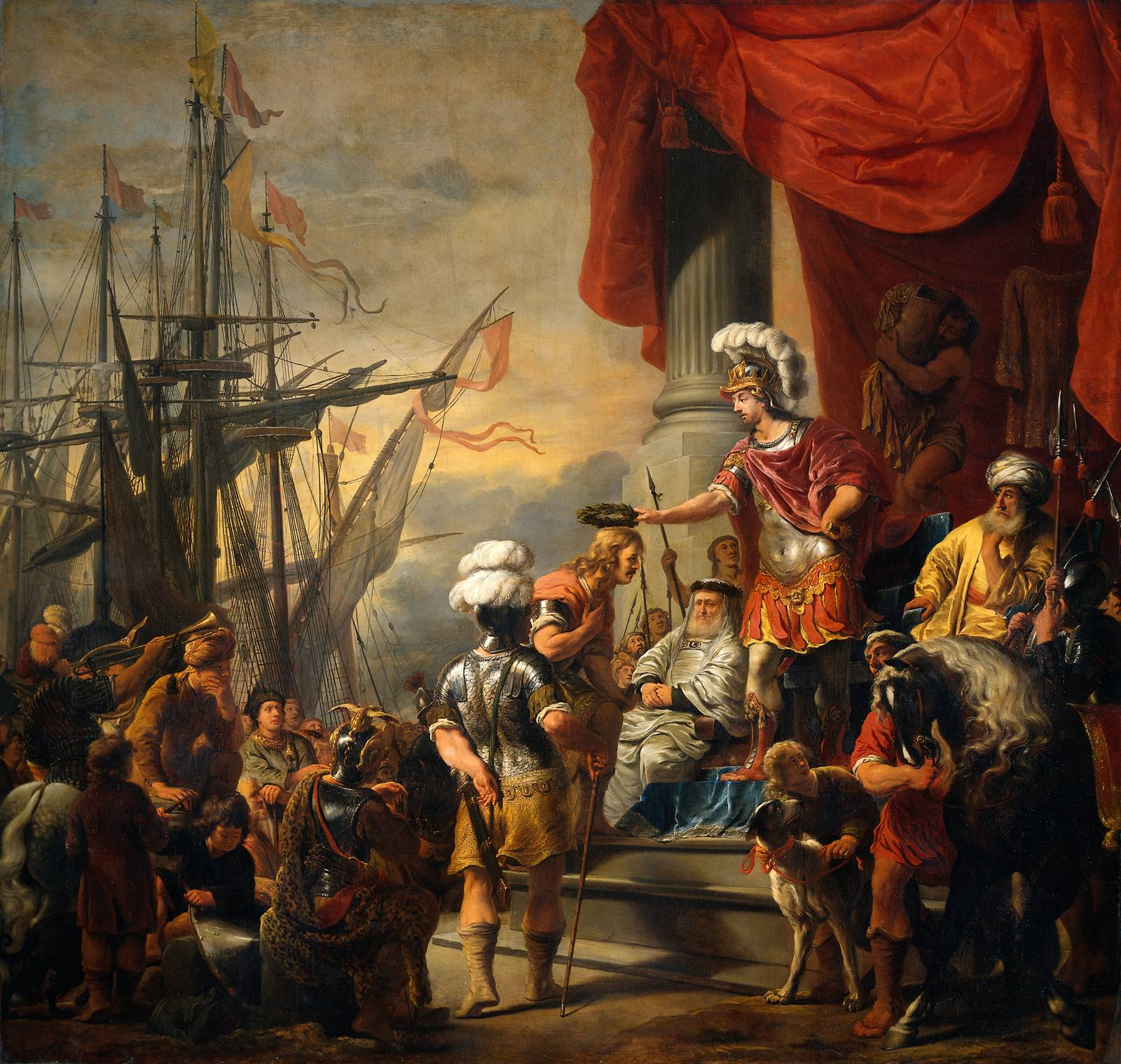 Aeneas handing out prizes after the race at sea. Aeneas rewards the winner with a laurel wreath, while being watched by a large gathering. To the left a large number of ship's masts. Pendant of File:Consul Titus Manlius Torquatus laat zijn zoon onthoofden Rijksmuseum SK-A-613.jpeg.